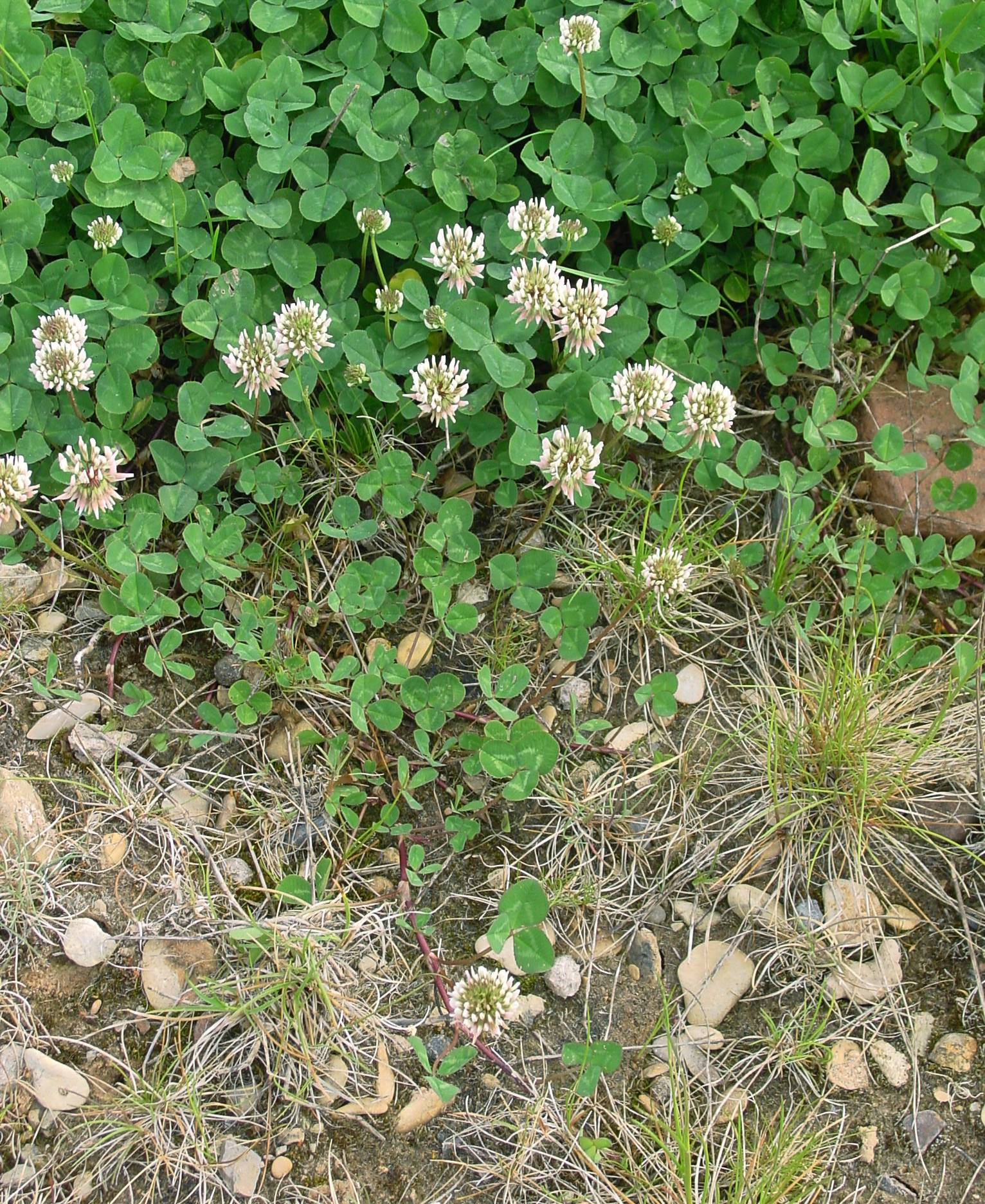 Trifolium repens - white clover - Weiss-Klee